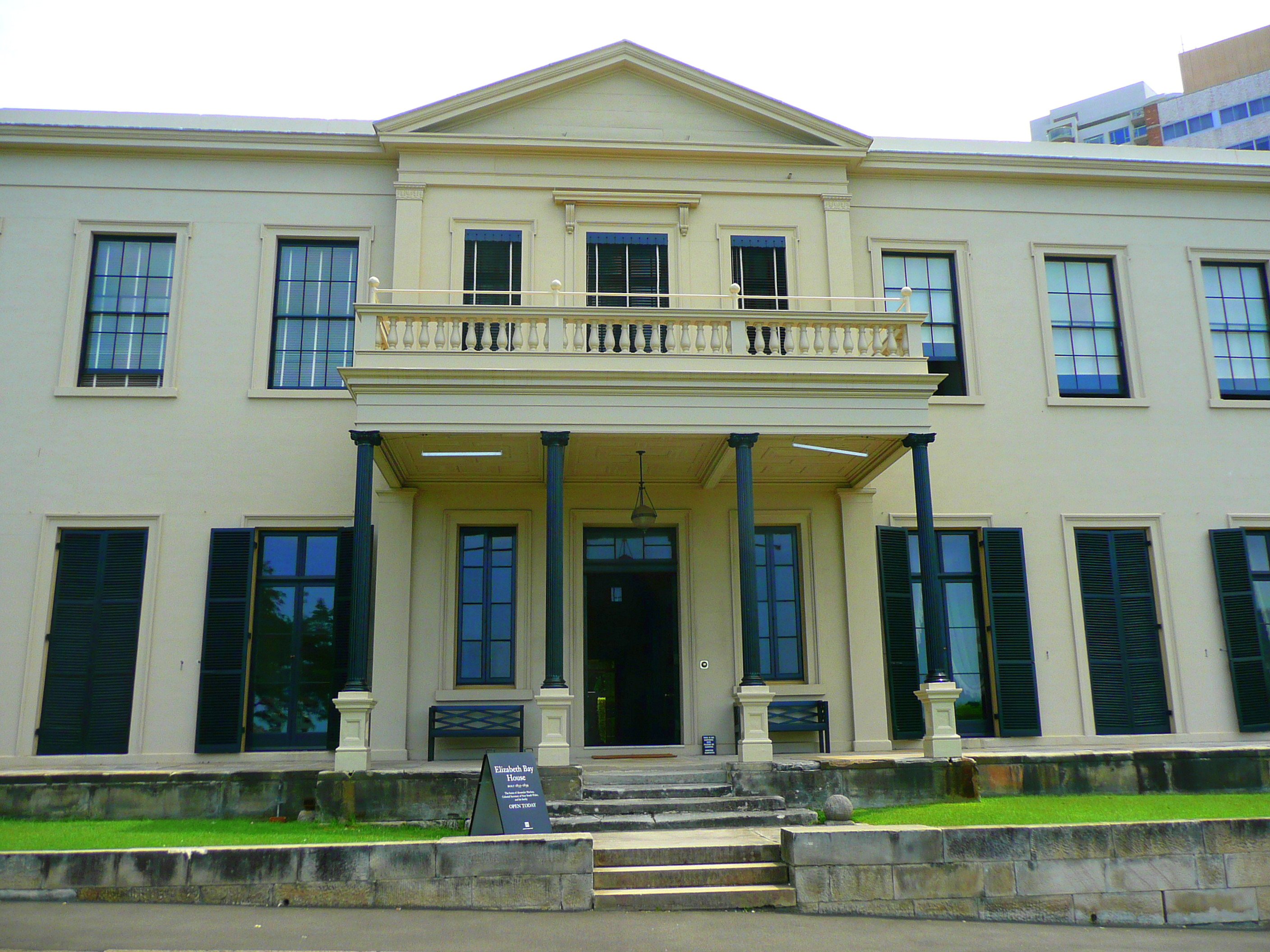 Elizabeth Bay House, Sydney